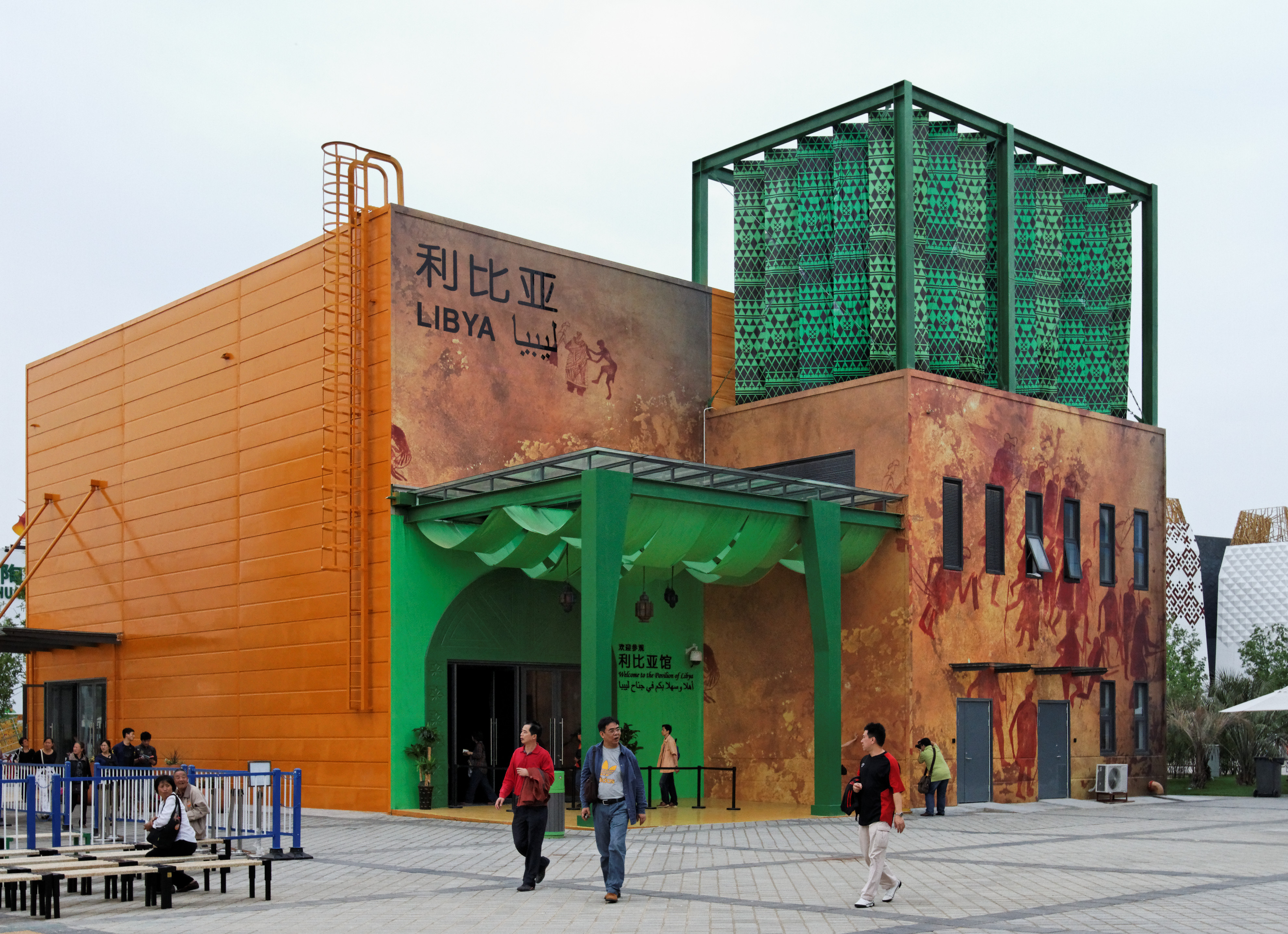 Libya Pavilion of Expo 2010 in China.